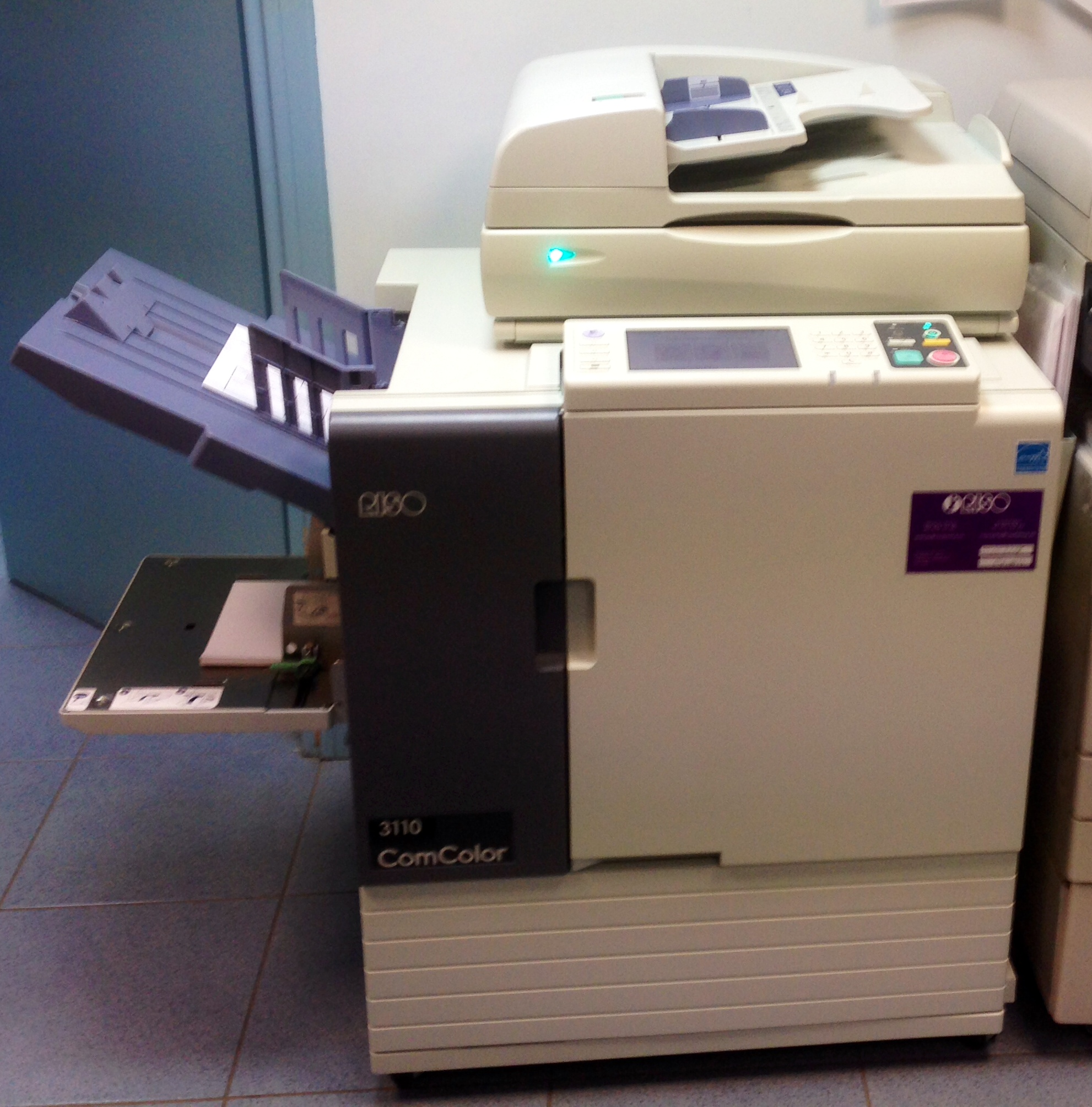 Riso ComColor 3110